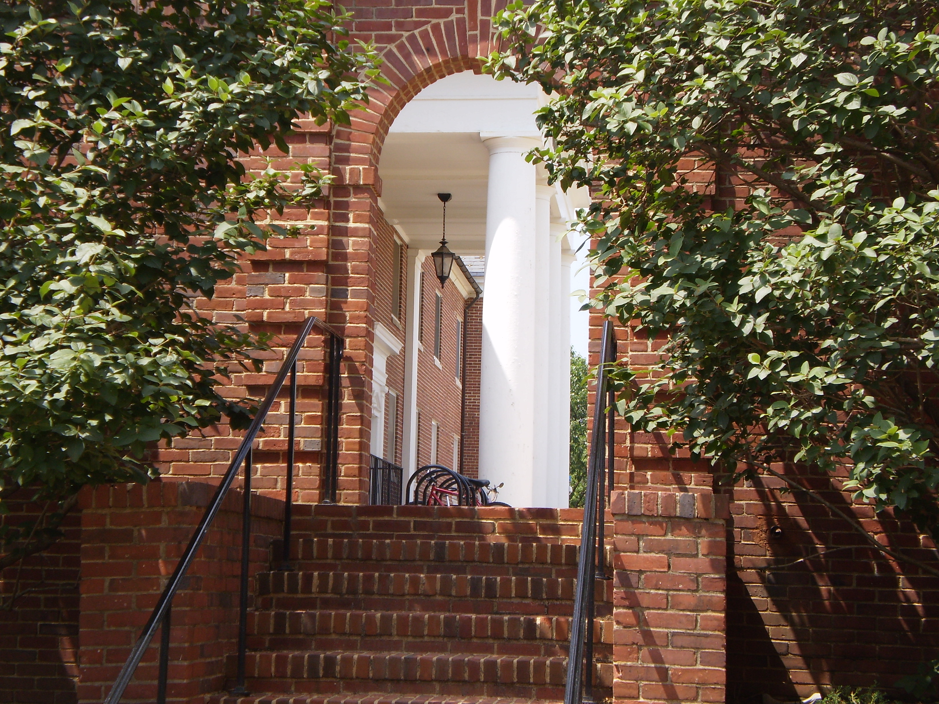 Brick entryway on the campus of the University of Maryland, College Park.